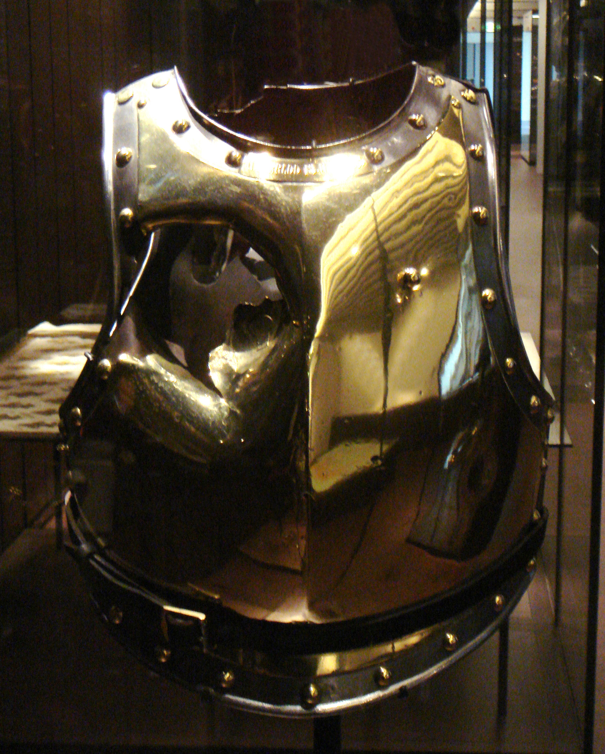 Cuirass penetrated by a cannonball at Waterloo on 18 June 1815. It belonged to a carabinier named François-Antoine Fauveau, a butter producer in civilian life. He was 23 years old at the time of his death. (Source: musee-armee.fr)